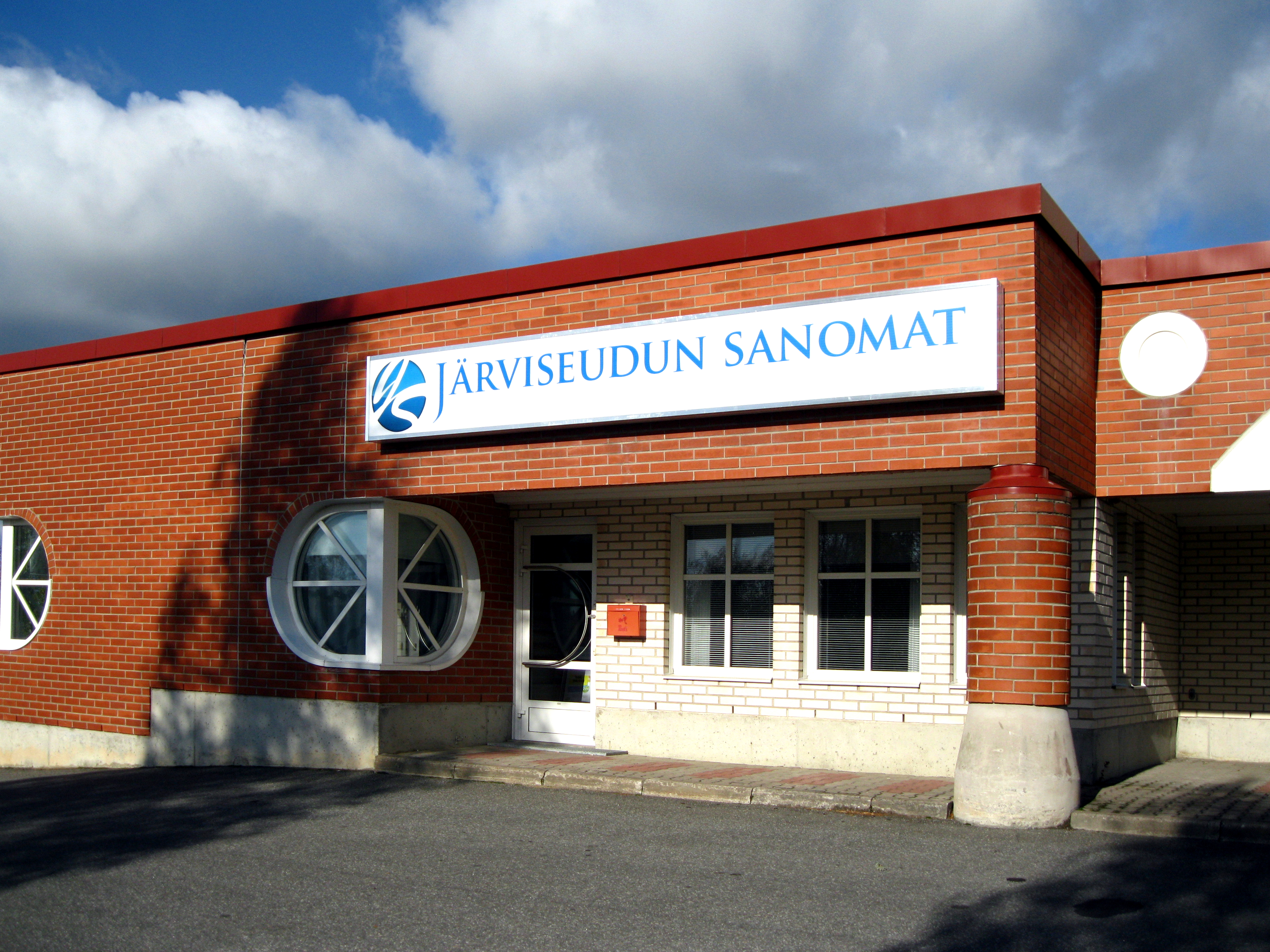 The local newspaper "Järviseudun Sanomat" office in Lappajärvi.